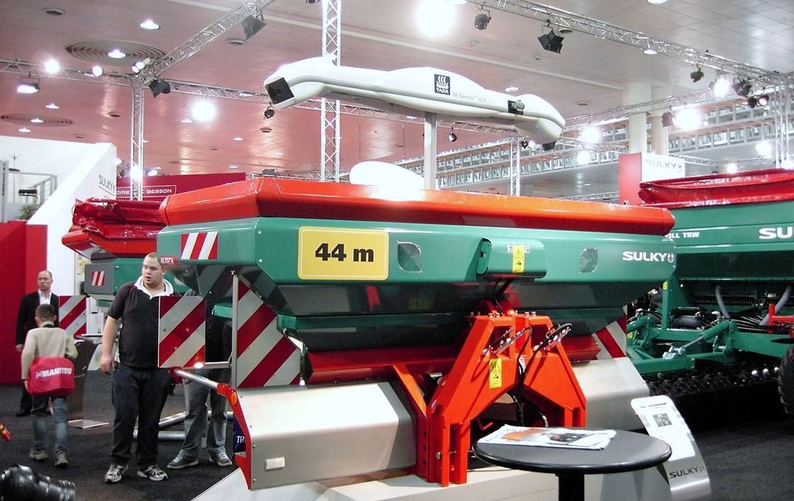 Sulky fertilizer spreader